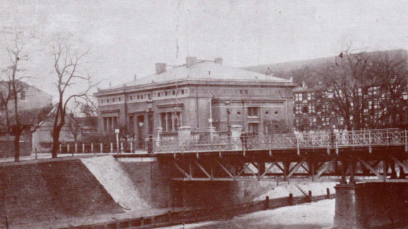 old mess and casino brombeg